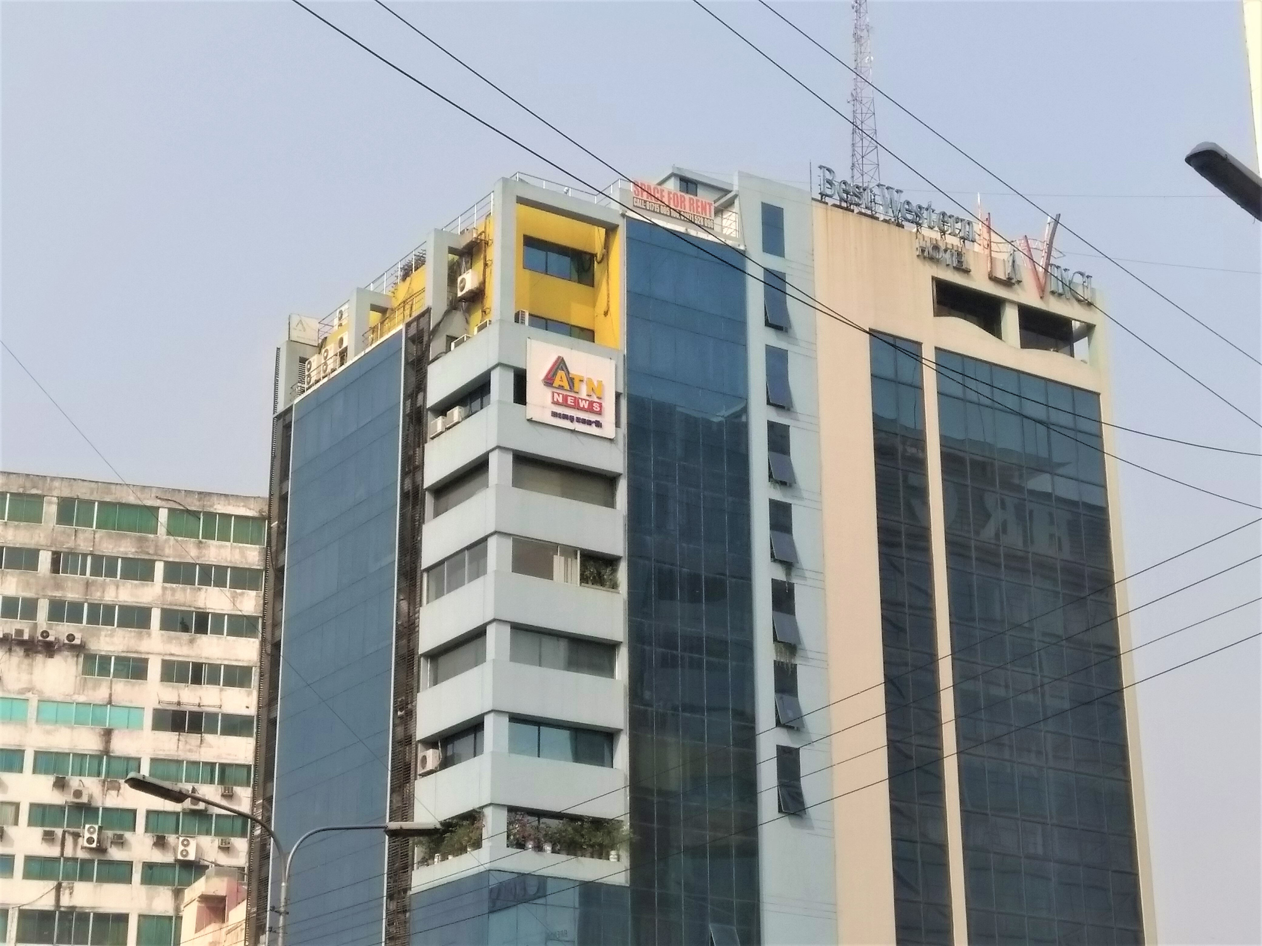 Headquarter of ATN News, Kawran Bazar, Dhaka.